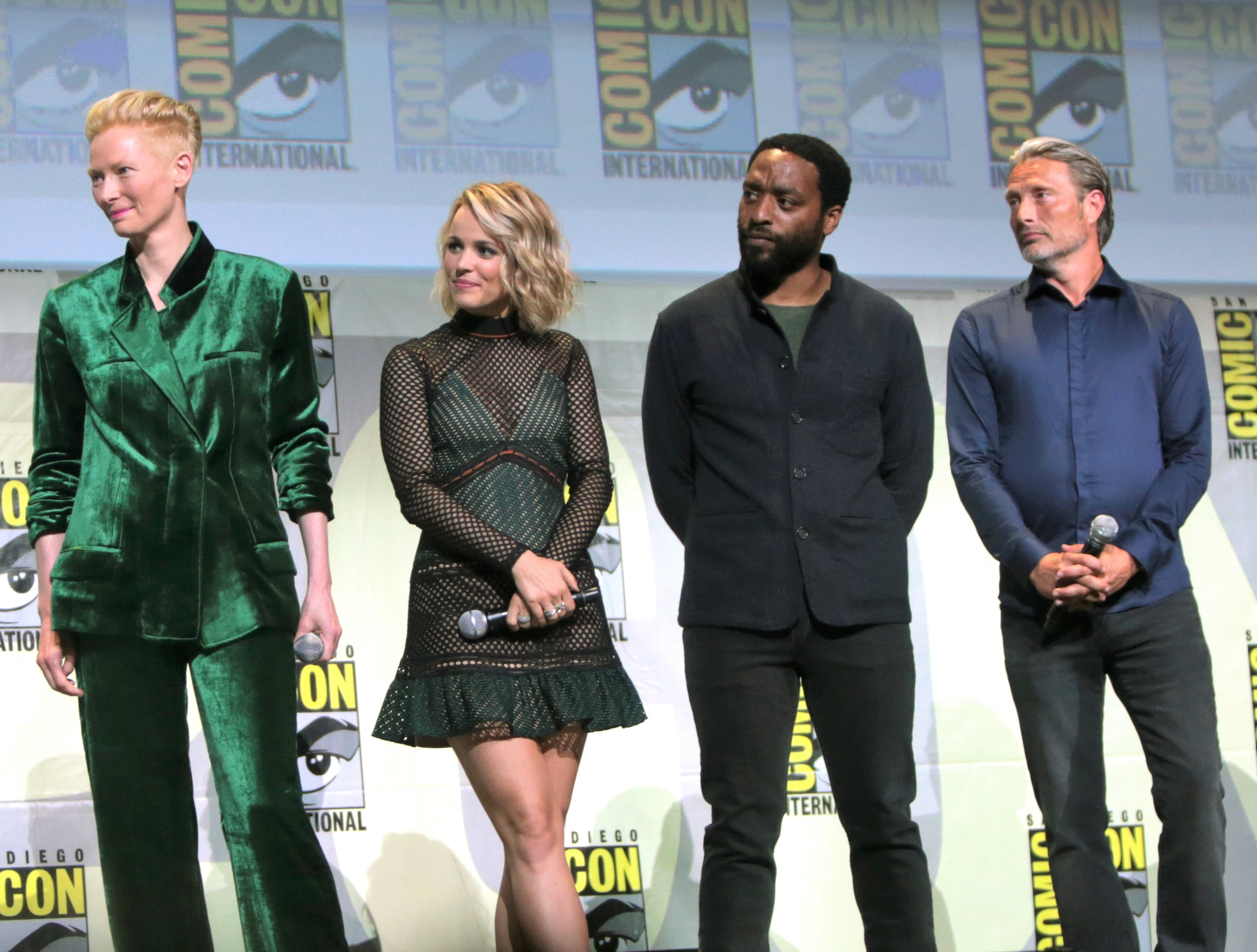 Tilda Swinton, Rachel McAdams, Chiwetel Ejiofor and Mads Mikkelsen speaking at the 2016 San Diego Comic Con International, for "Doctor Strange", at the San Diego Convention Center in San Diego, California.